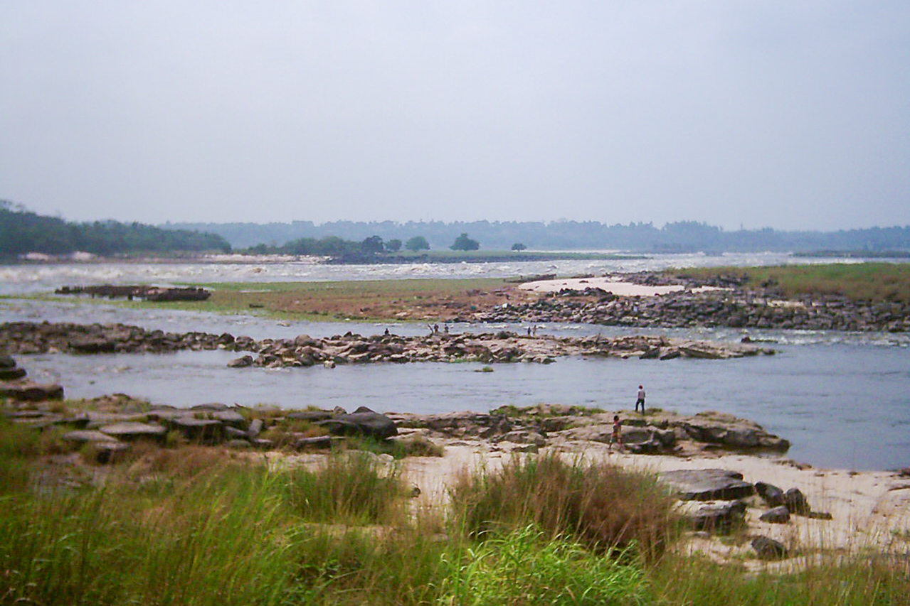 Upper Livingstone Falls rapids of the Congo River in Kinshasa — in the city's western Ngaliema municipality.